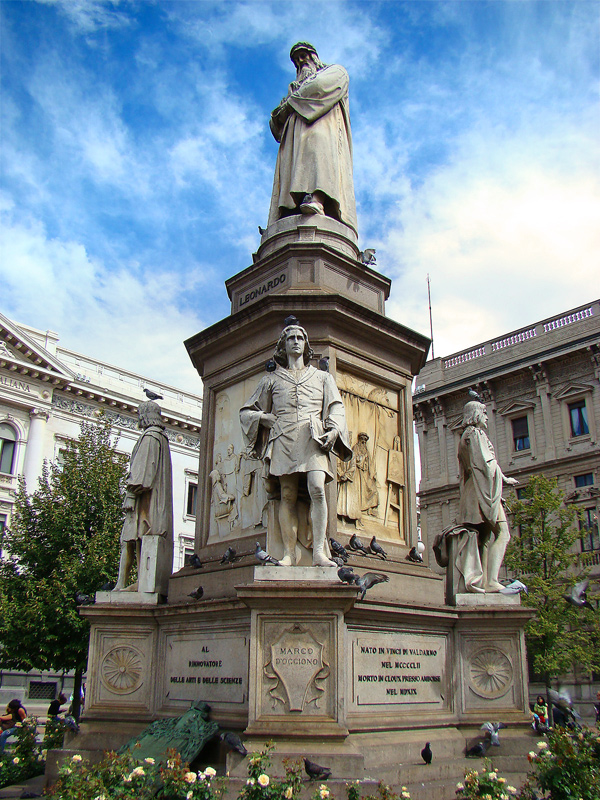 Monument to Leonardo da Vinci, Piazza della Scala, Milan, Lombardy, Italy.